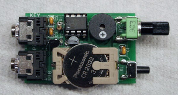 A picture of my new cw memory keyer kit